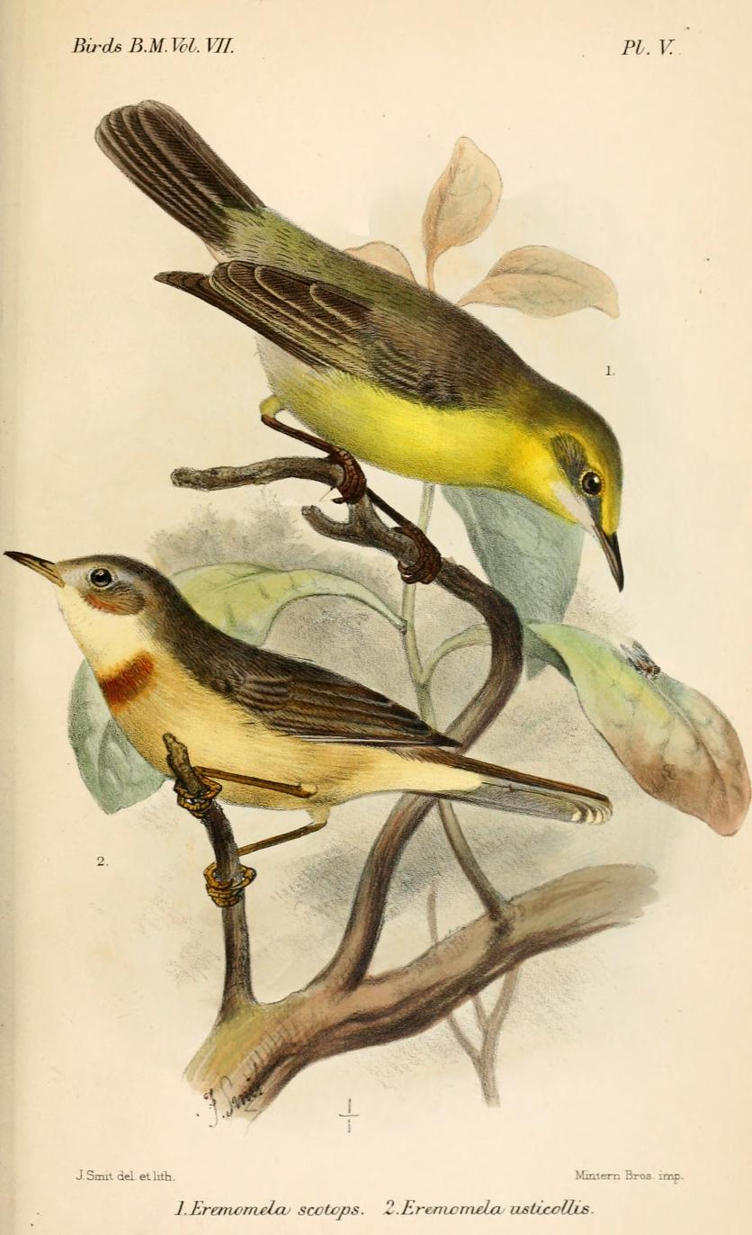 Eremomela scotops Greencap Eremomela (above), and Eremomela usticollis Burnt-neck Eremomela (below)